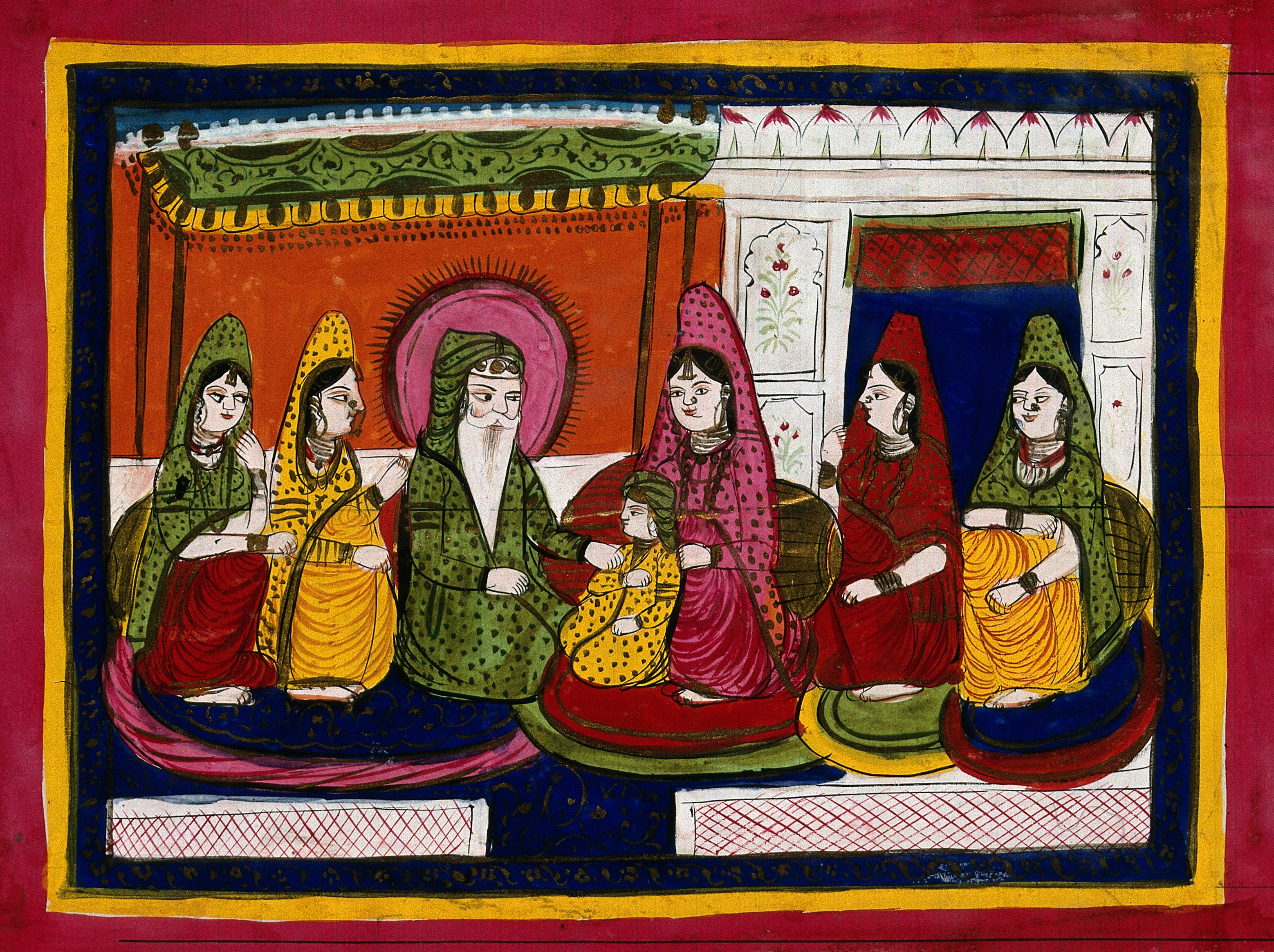 Page 140:Maharaja Ranjit Singh with wives. Gouache drawing. Iconographic Collections Keywords: Sikhism